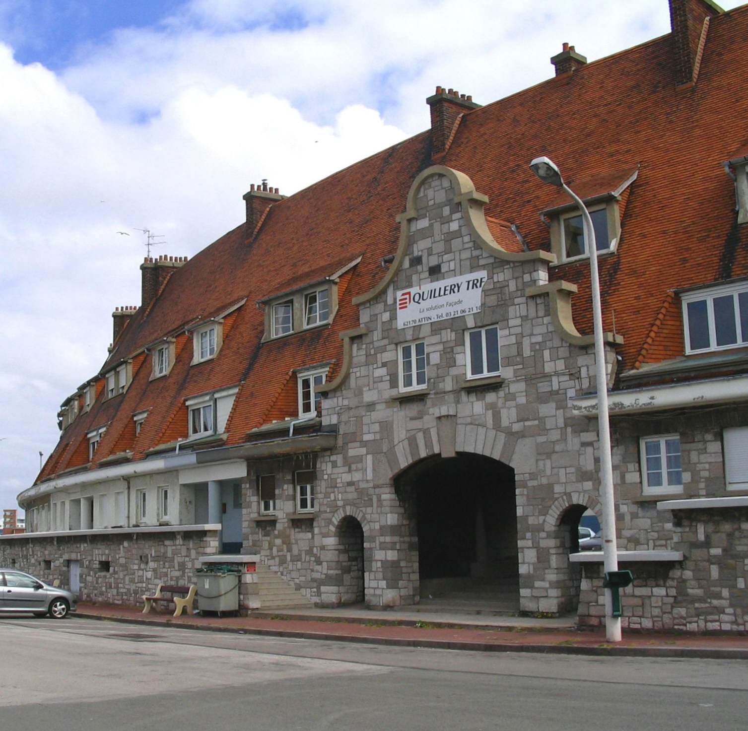 Ensemble d'habitations, Calais, France Dwellings in Calais, France Auteur/author: P.Charpiat - 2006